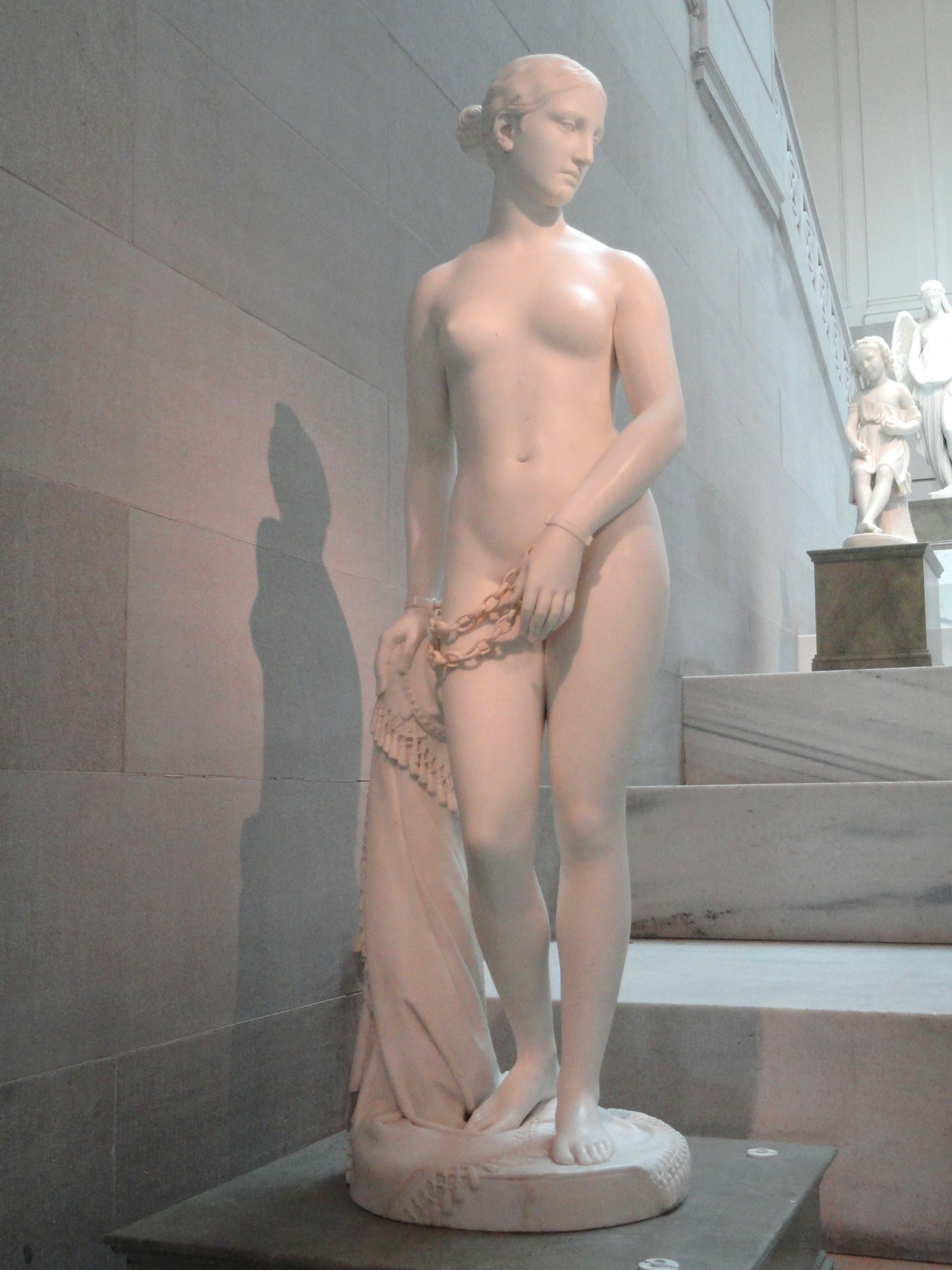 Sculpture exhibited in the Corcoran Gallery of Art, Washington, D.C., USA. There were no prohibitions against photography in the museum. This artwork is in the public domain because the artist died more than 70 years ago.